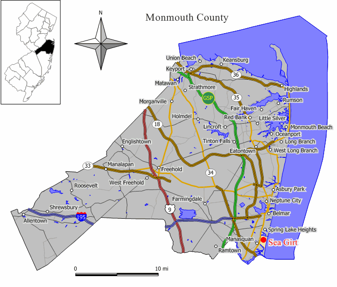 Source: Jim Irwin